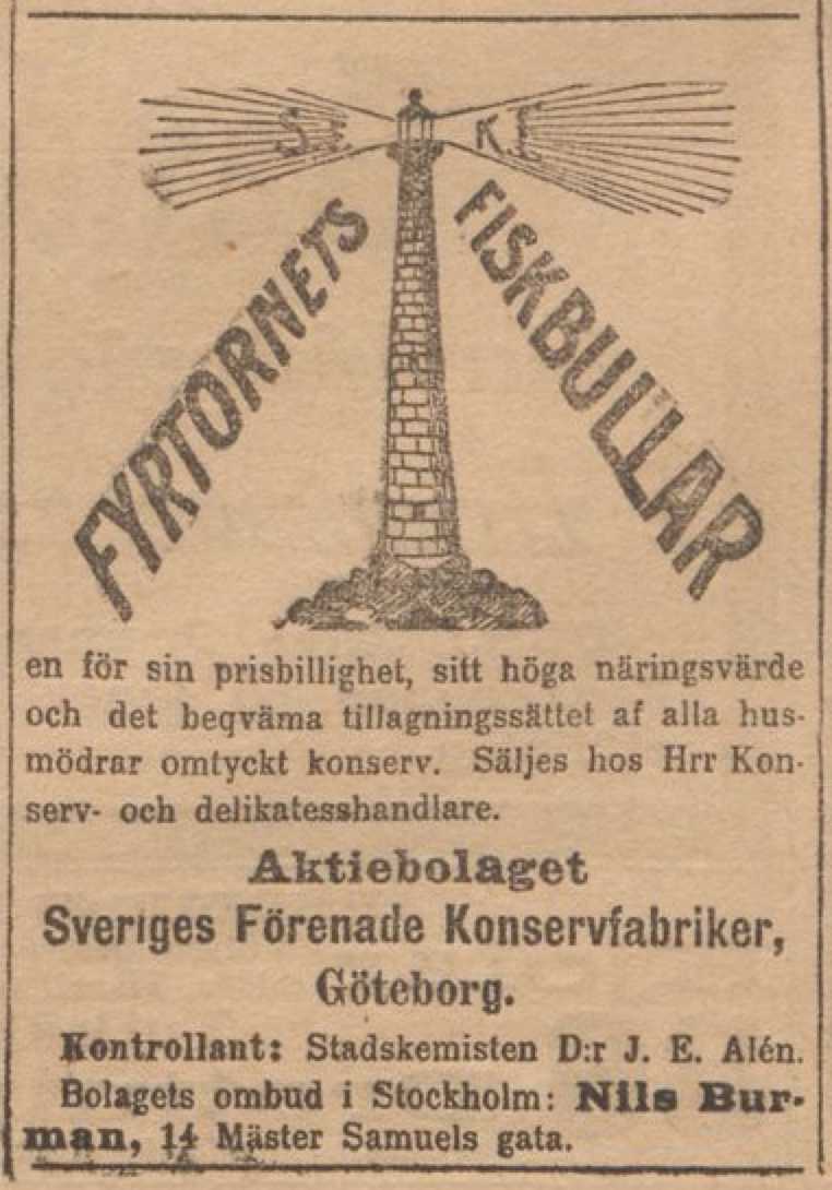 Advert for AB Sveriges förenade konservfabriker in newspaper Svenska Dagbladet, 1899-05-08.